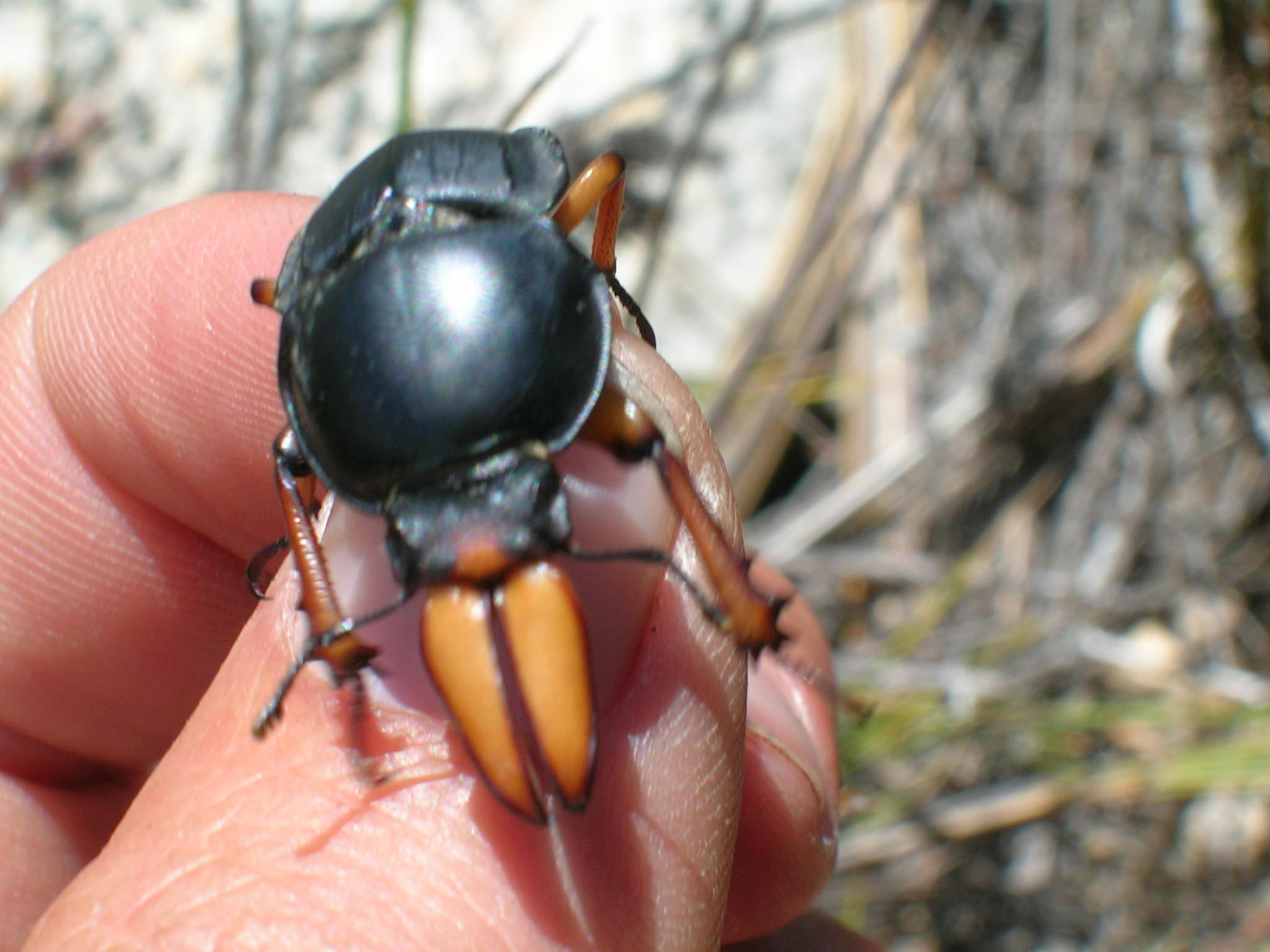 Colophon primosi - Primos's Cape Mountain Stag Beetle. Species of insect.